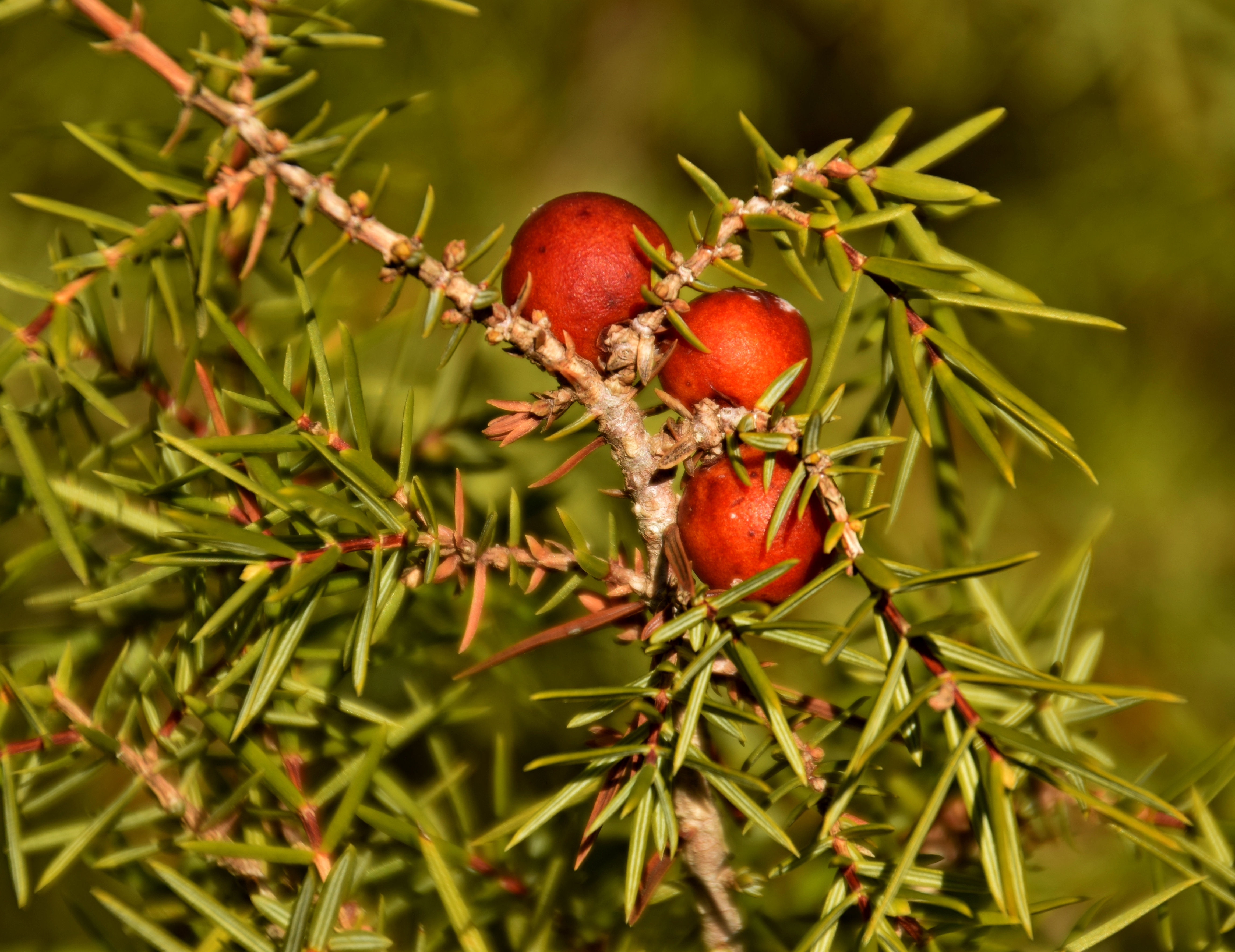 Prickly Juniper Juniperus oxycedrus in Parc naturel régional de la Narbonnaise en Méditerranée